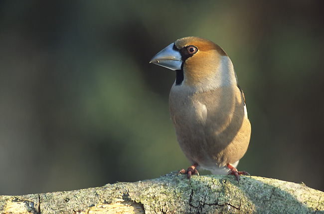 Coccothraustes coccothraustes